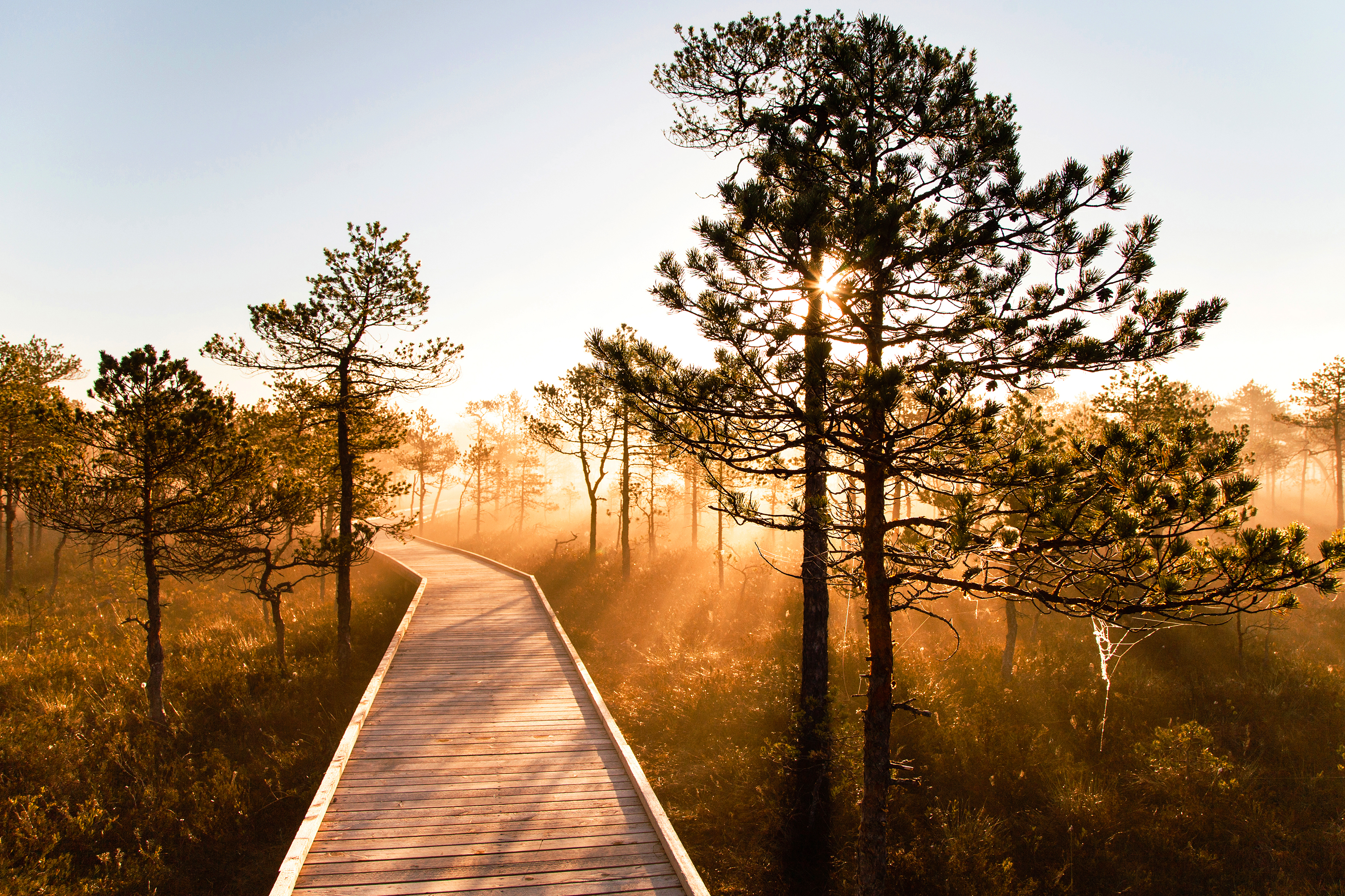 Boardwalk in Meenikunno Nature Park.